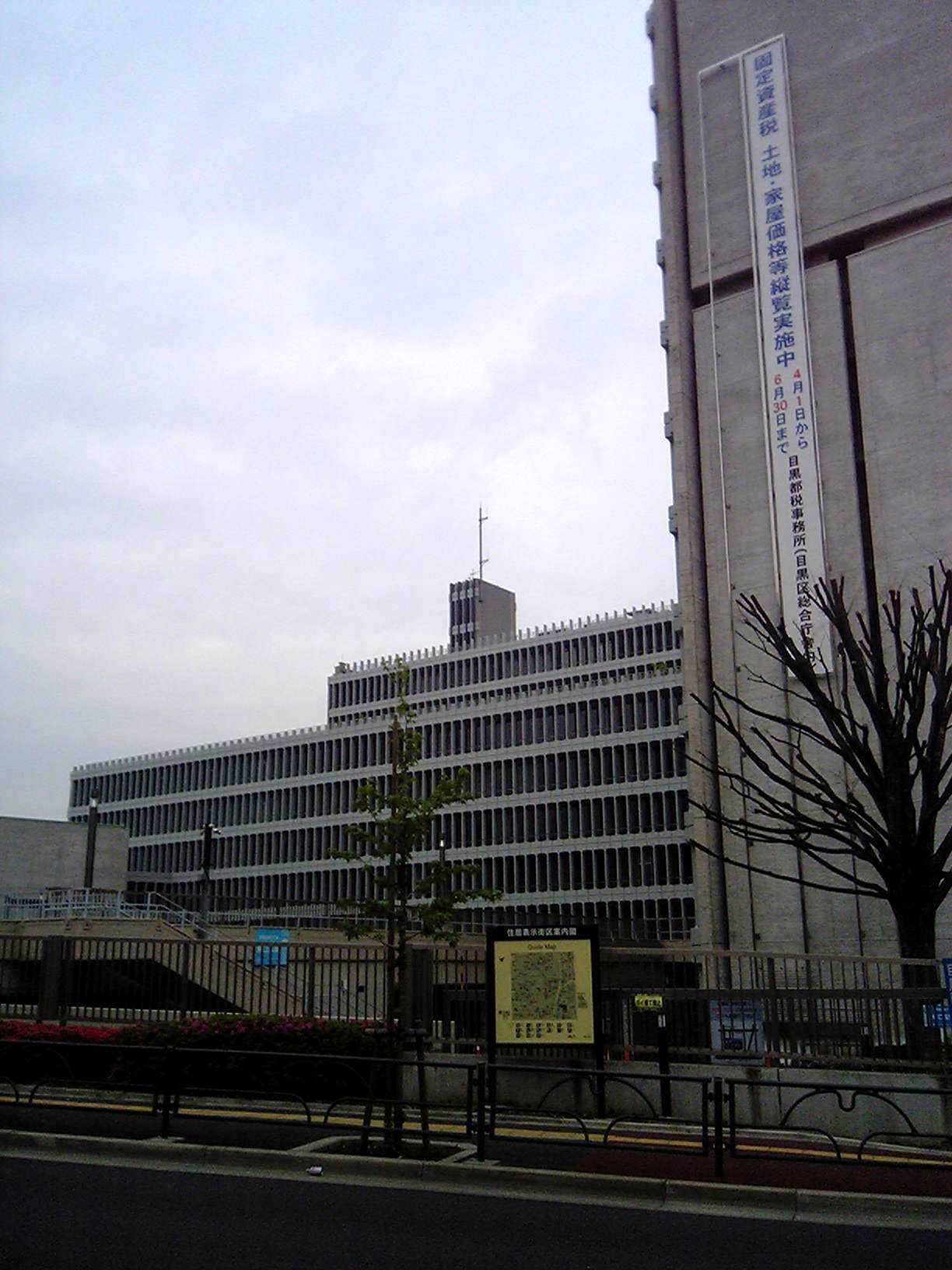 Meguro Ward Office in Tokyo, Japan